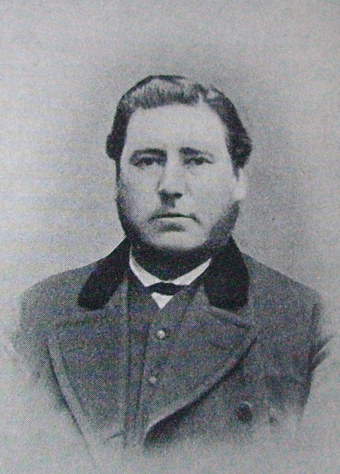 Picture of Anders Peter Danielsson, Swedish politician